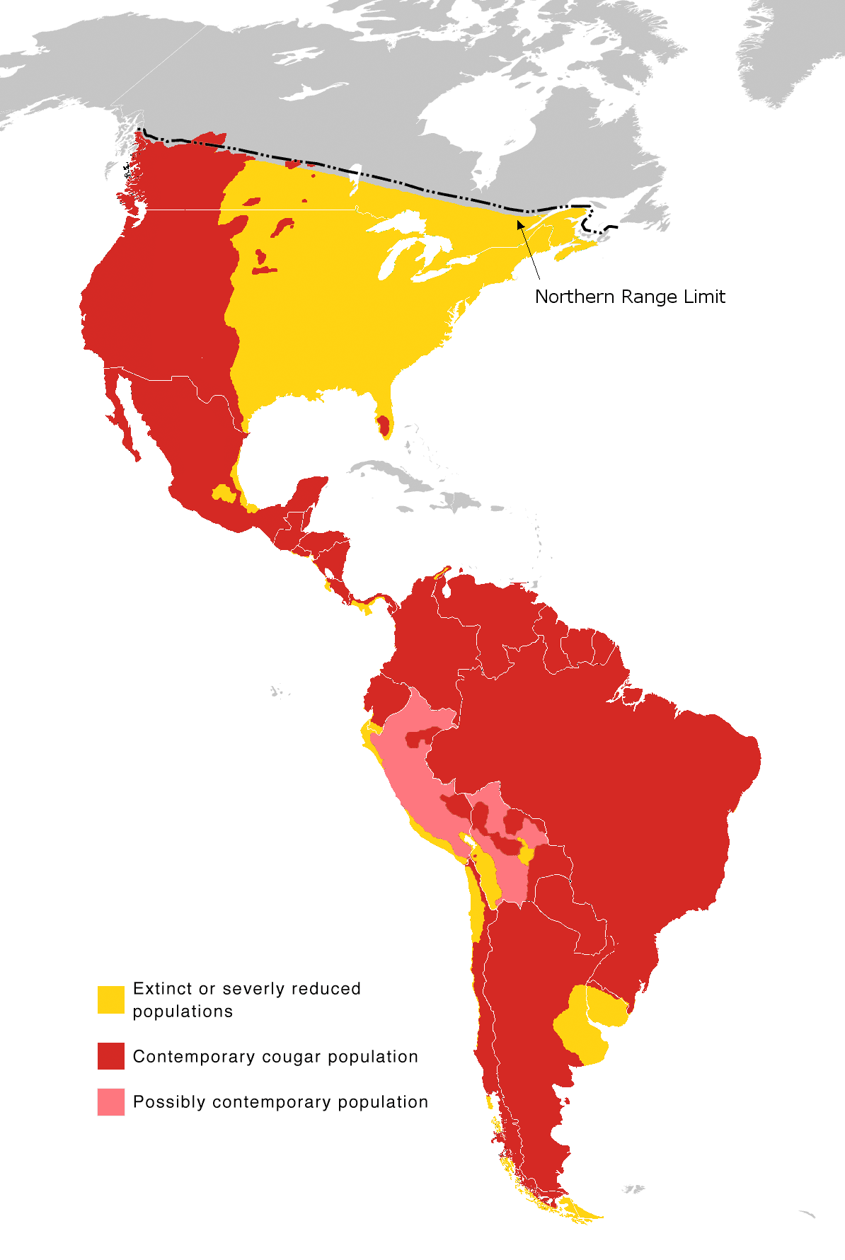 Distribution of Puma concolor as it was known to exist in 2010.